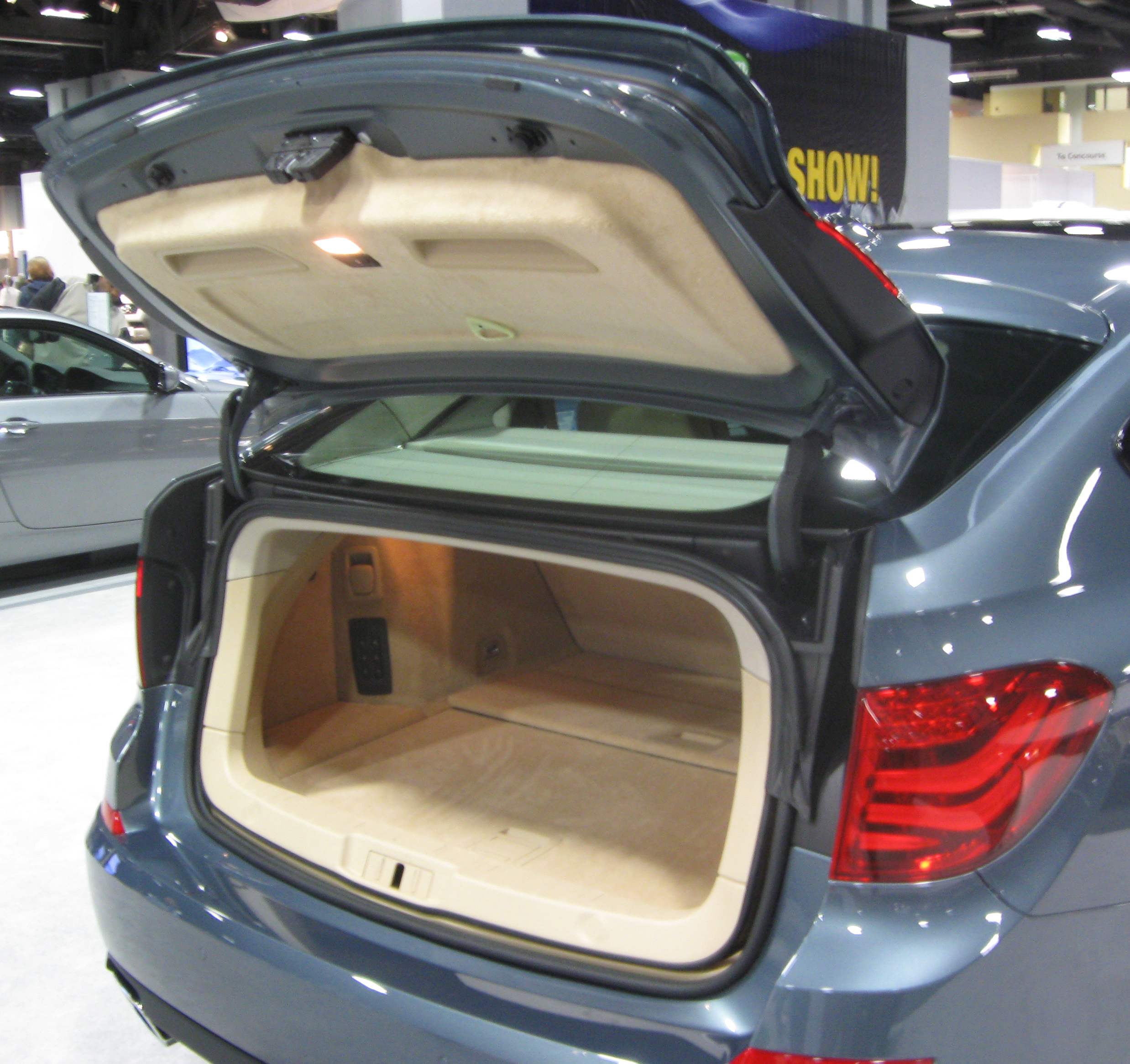 2010 BMW 550i Gran Turismo photographed at the 2010 Washington Auto Show.